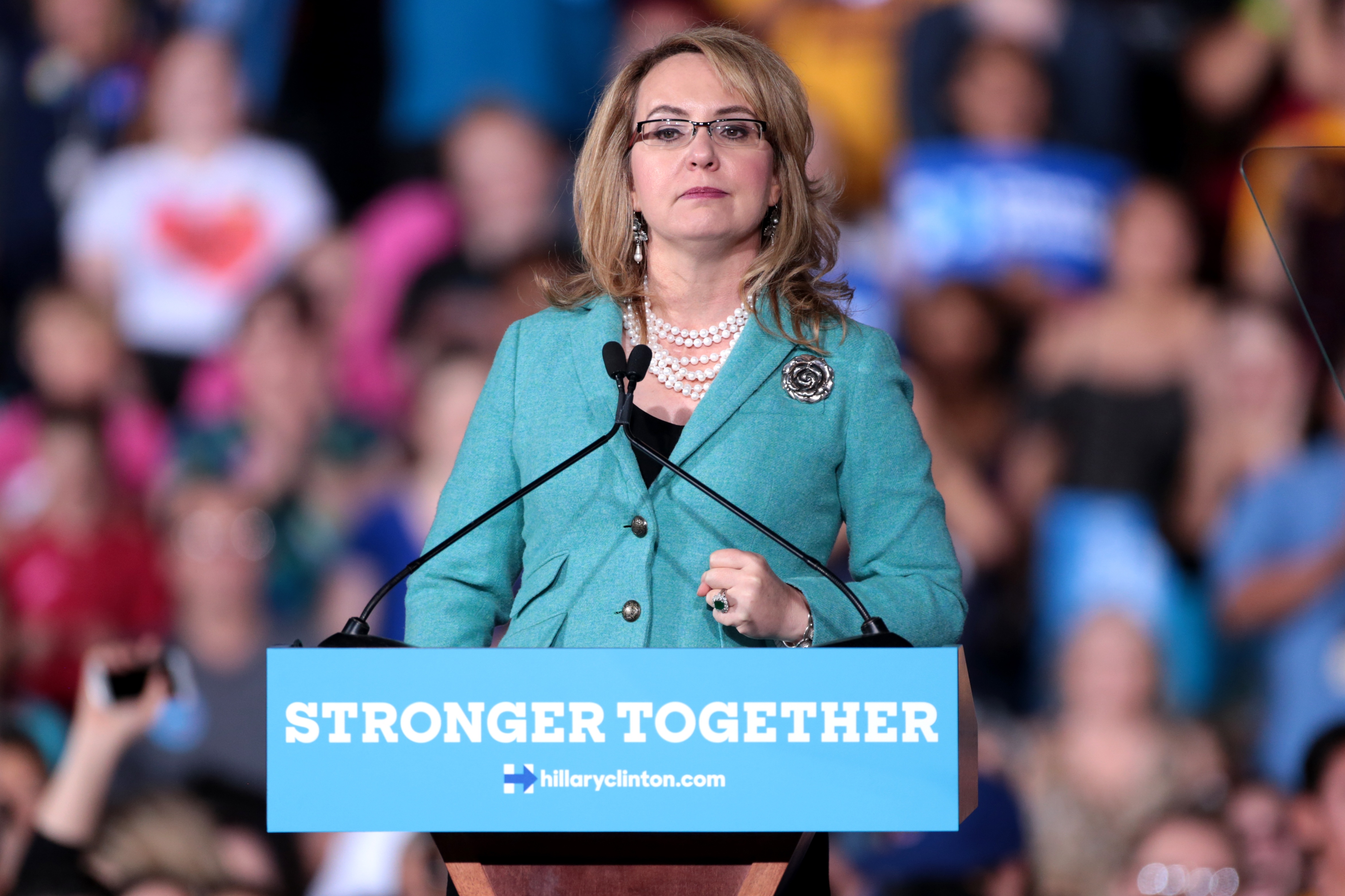 Former U.S. Congresswoman Gabrielle Giffords speaking with supporters of former Secretary of State Hillary Clinton at a campaign rally at the Intramural Fields at Arizona State University in Tempe, Arizona.